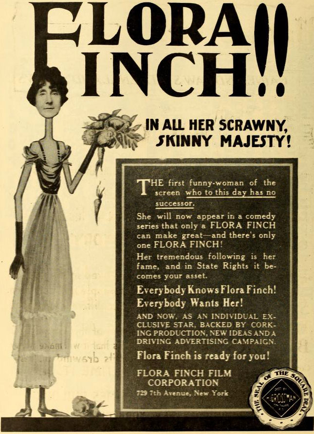 Advertisement in Moving Picture World